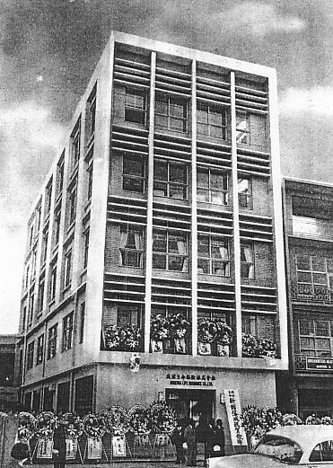 Ryukyus Life Insurance Company